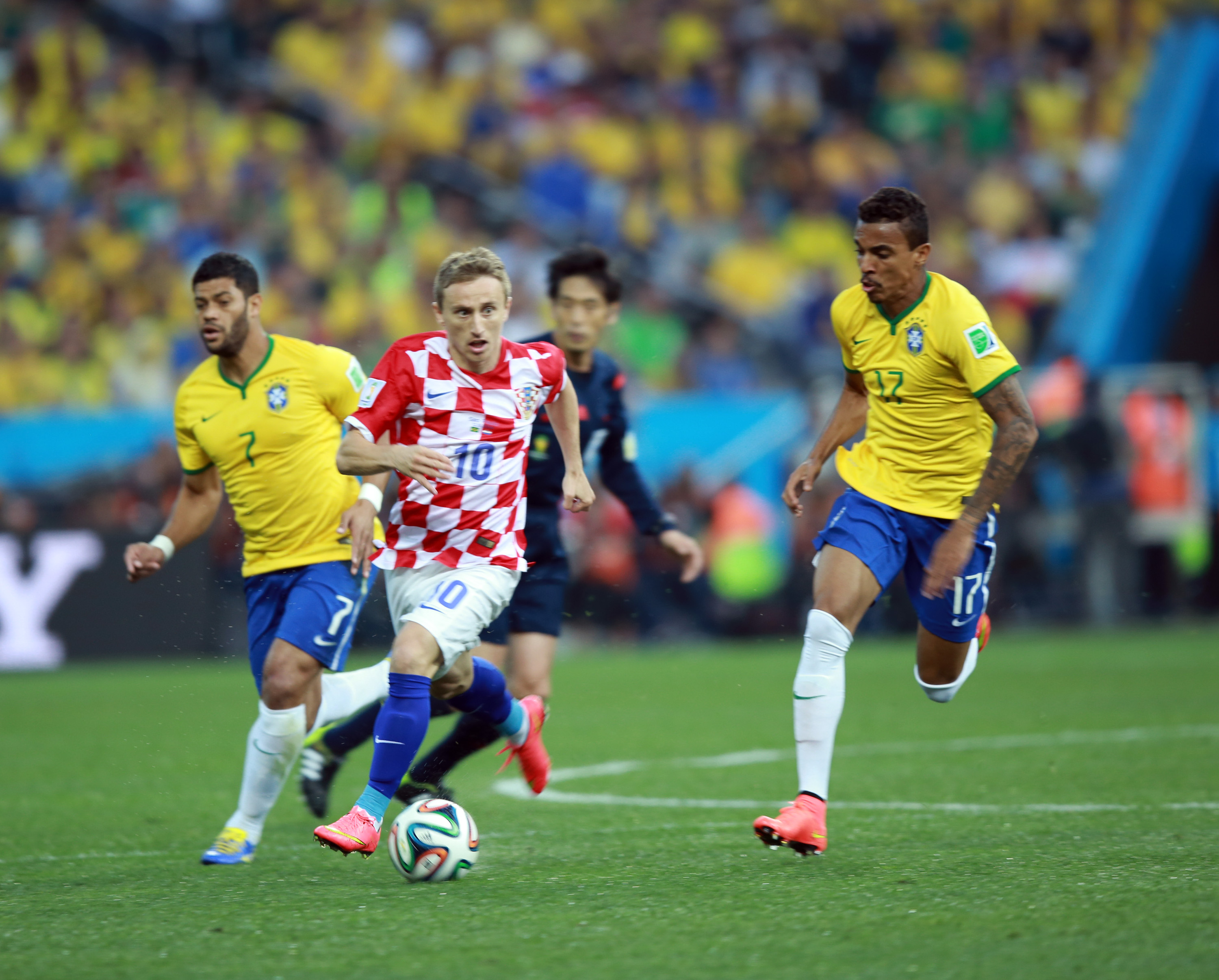 Brazil and Croatia match at the FIFA World Cup 2014-06-12